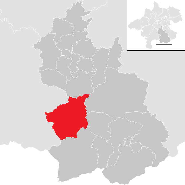 district Kirchdorf an der Krems